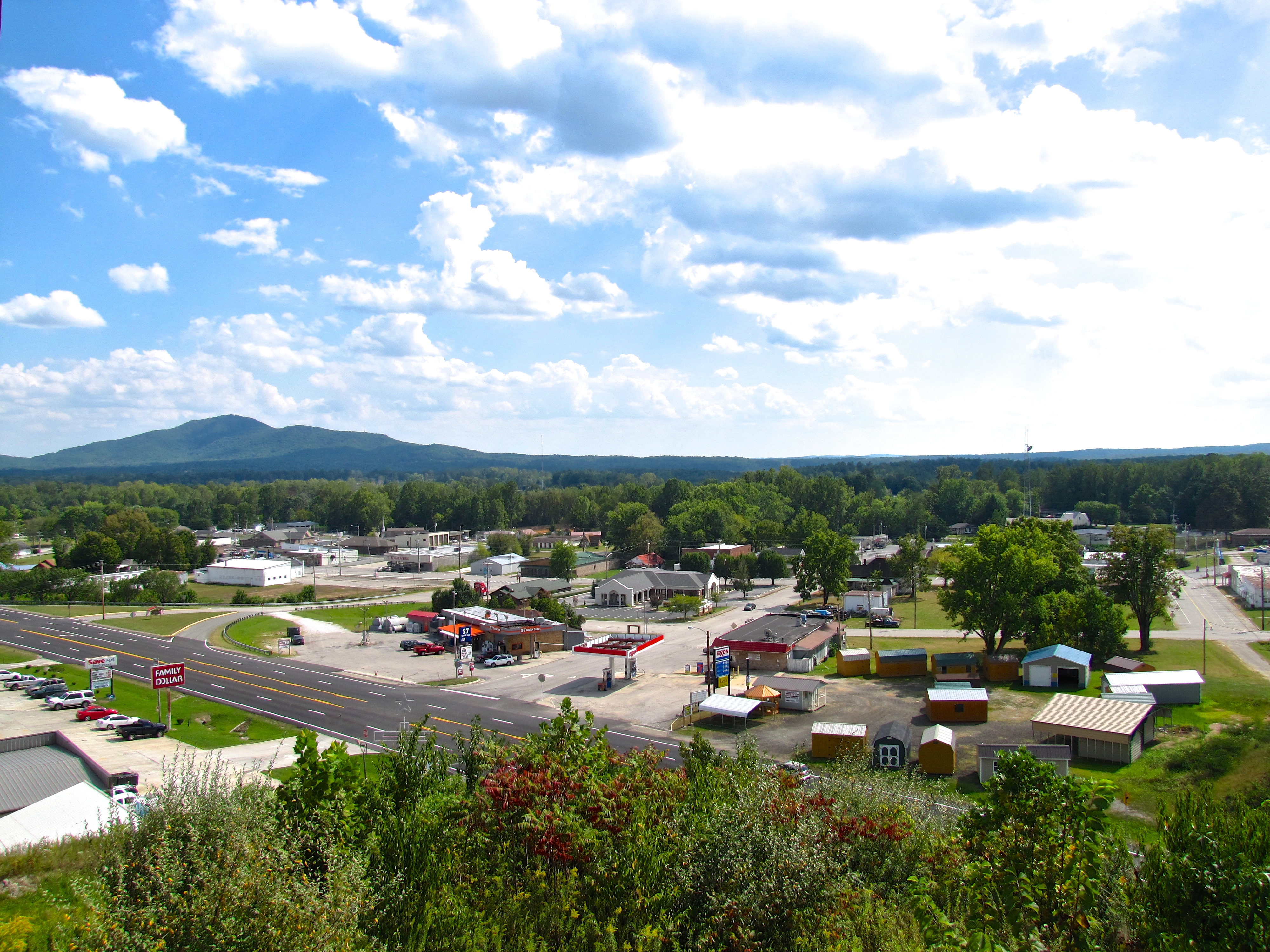 View of Wartburg, Tennessee, United States. Lone Mountain is in the background on the left. U.S. Route 27 is below.